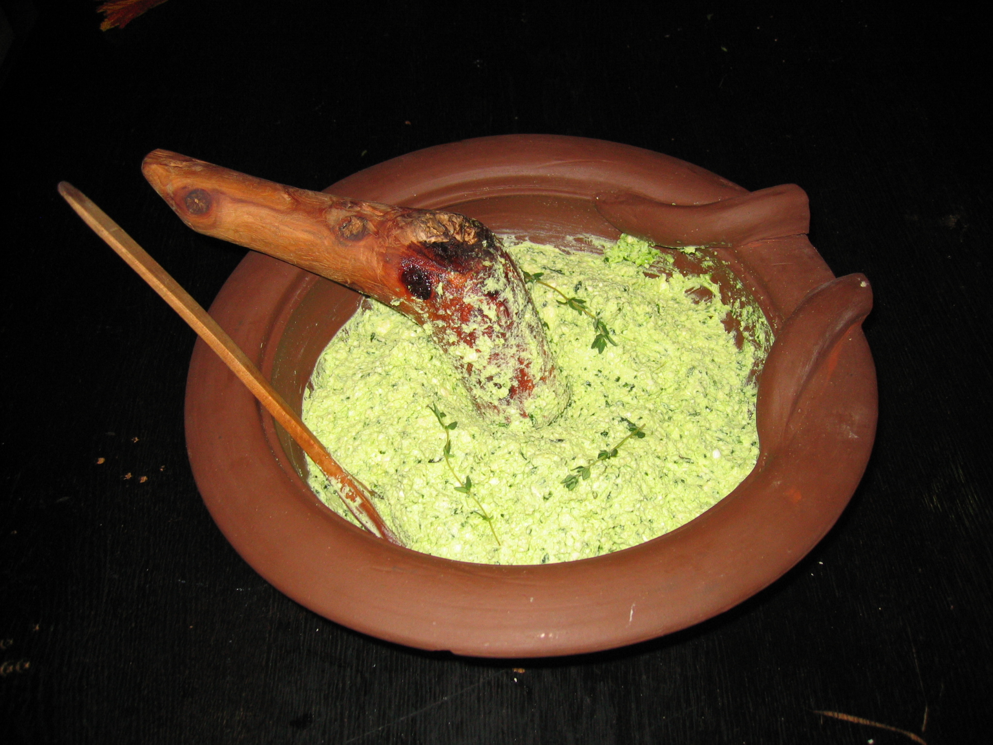 Moreum, an antique roman speciality .